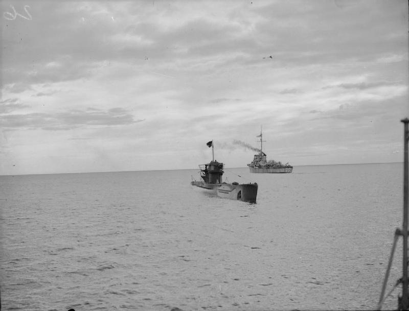 The Royal Navy during the Second World War U 1009, the first U-boat to surrender, arrives at Loch Eriboll, Scotland after a voyage from Bergen. With her black surrender flag flying, U 1009 approaches escort ships of the Royal Navy. In the background is the Captain class frigate HMS BYRON of the 21st Escort Group.